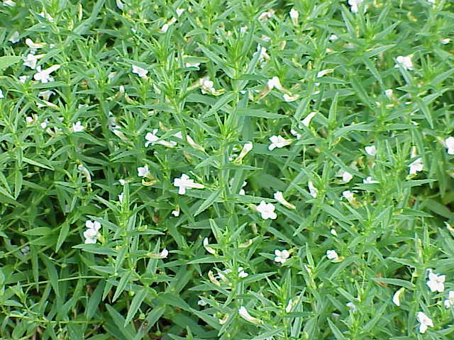 Species: Gratiola officinalis Family: Scrophulariaceae Image No. 2